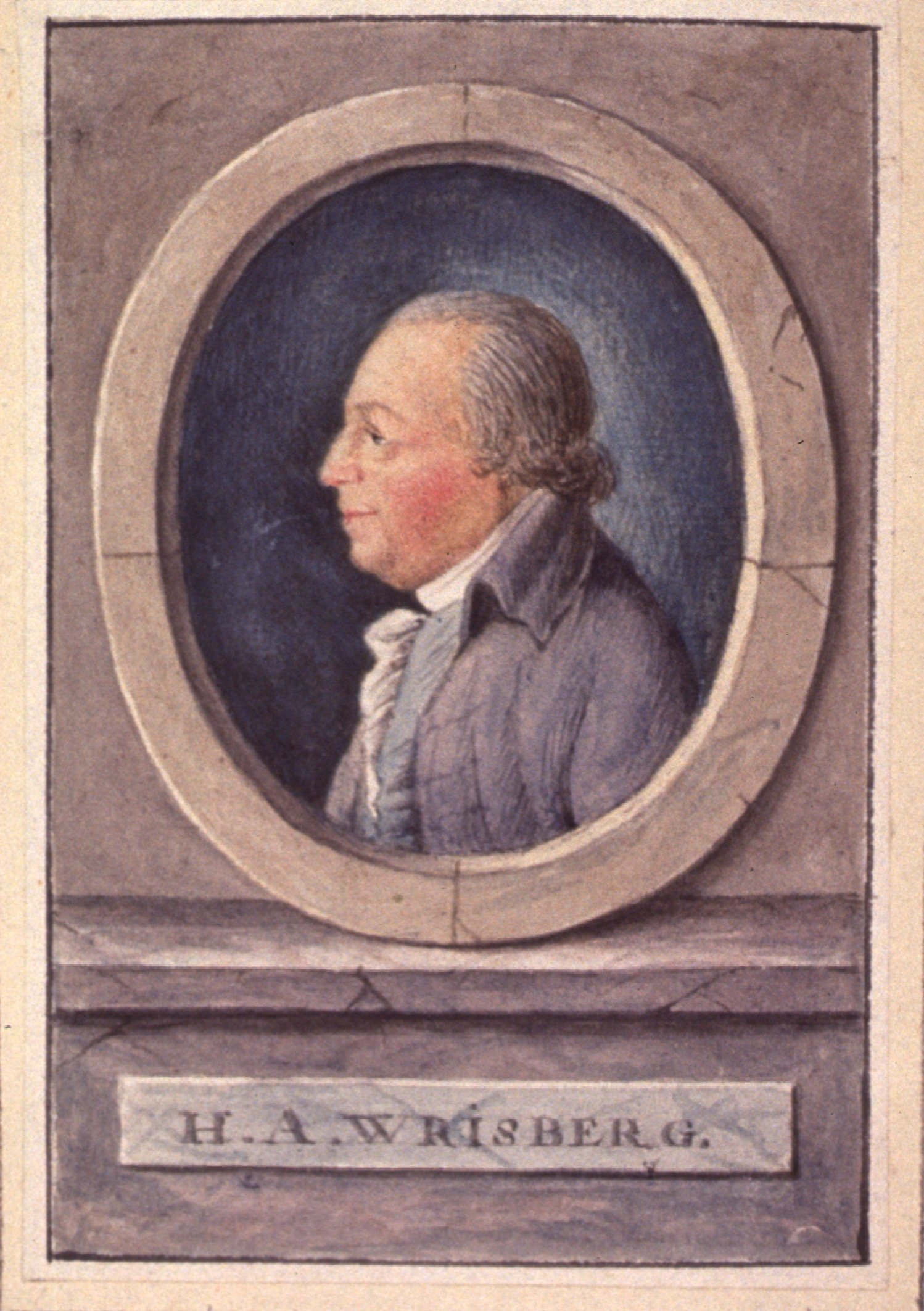 Wrisberg, Henricus Augustus 1739-1808